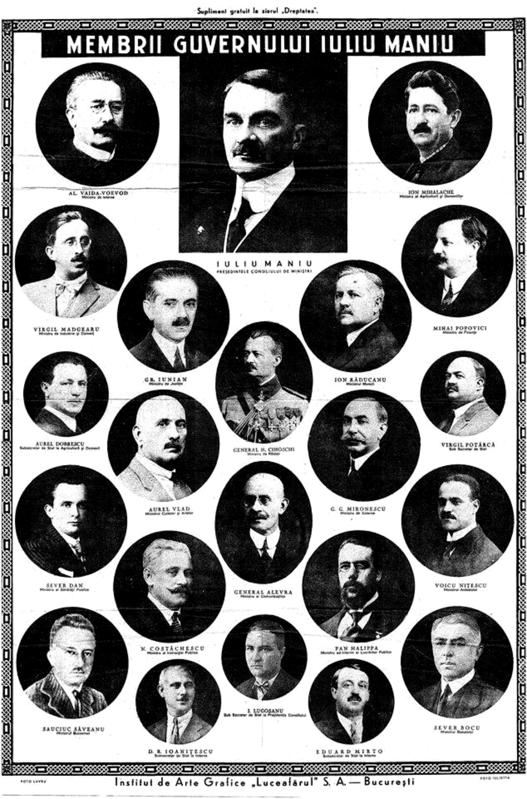 Members of Iuliu Maniu's cabinet, which governed Romania in October 1928–October 1930.